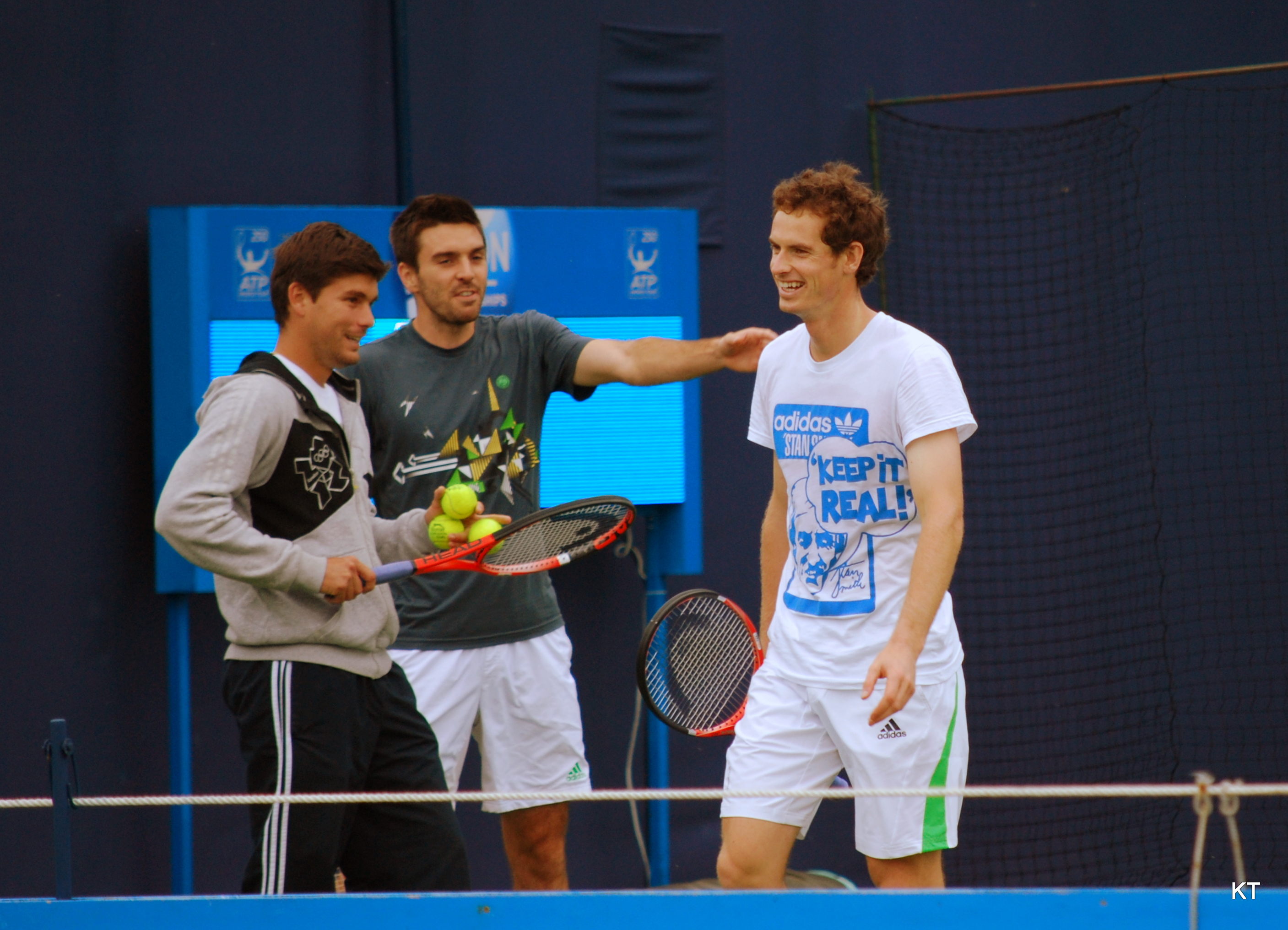 On the practice court. Day 1 of the 2011 Aegon Championships, Queen's Club.